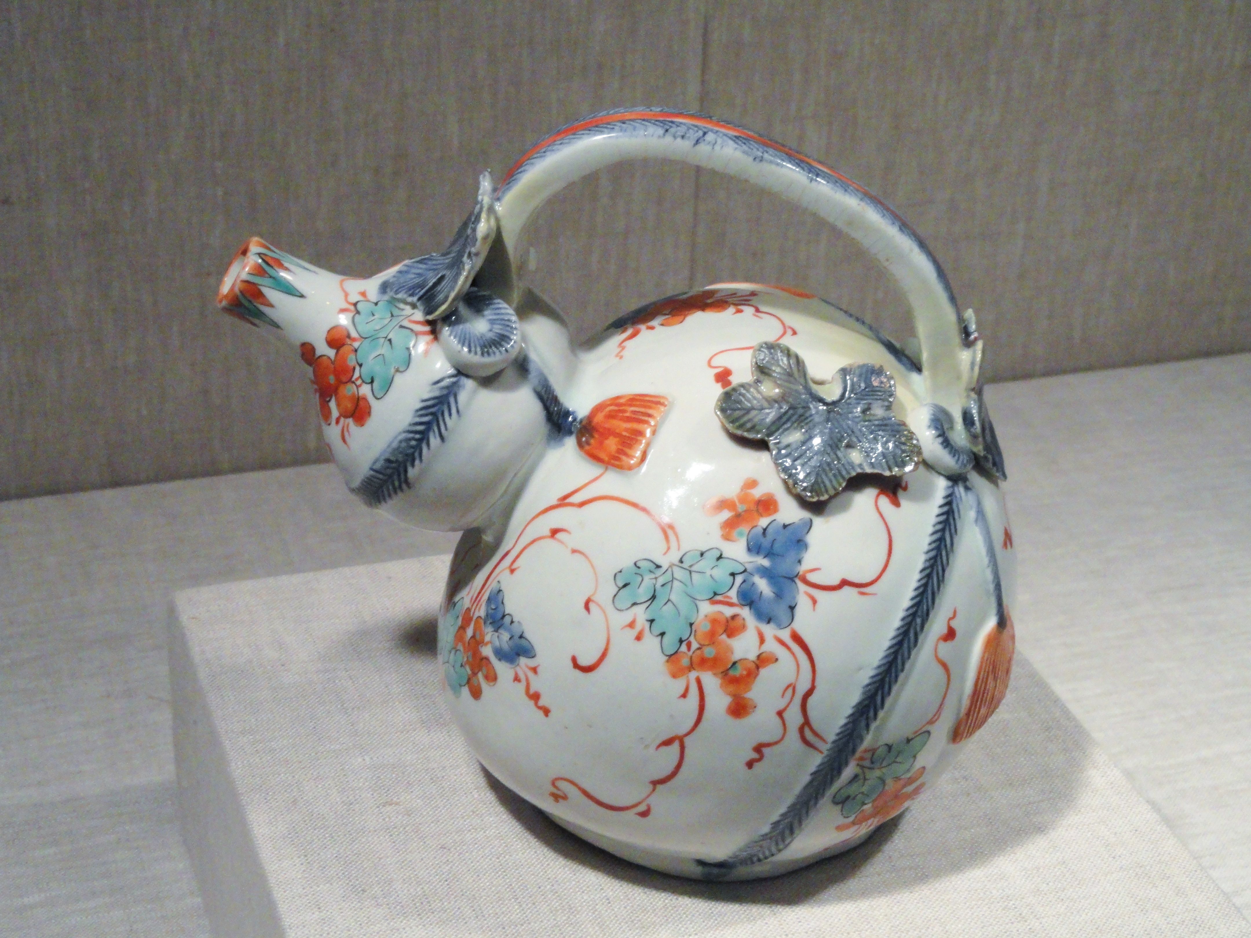 Exhibit in the Art Institute of Chicago, Chicago, Illinois, USA. This artwork is in the public domain because the artist died more than 70 years ago. Arita-Ware Kakiemon Gourd-Shaped Ewer, late 17th century, Japan, porcelain with enamel